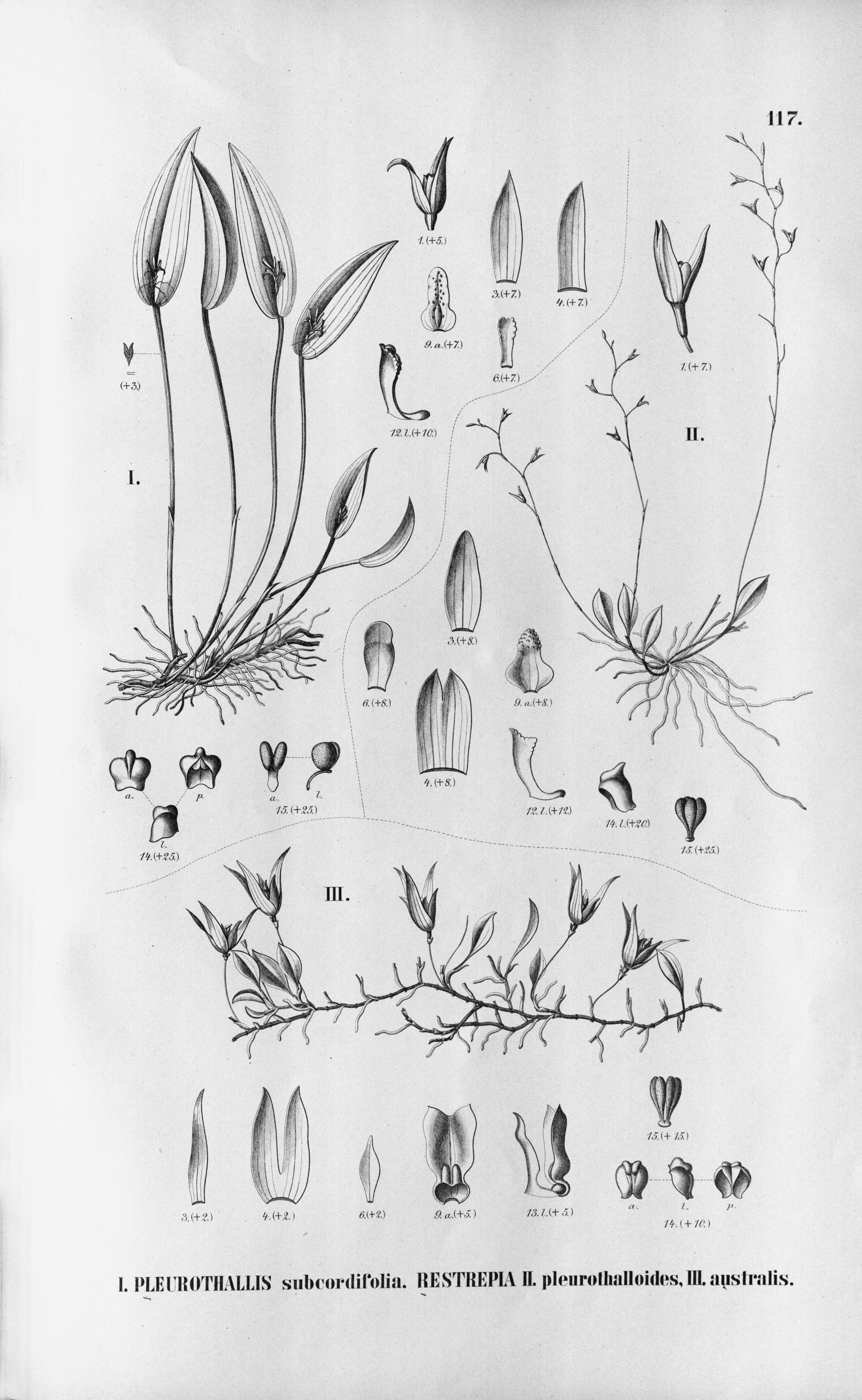 Illustration of : I. Acianthera luteola (as syn. Pleurothallis subcordifolia) II. Pabstiella pleurothalloides (as syn. Restrepia pleurothalloides) III. Barbosella australis (as syn. Restrepia australis)